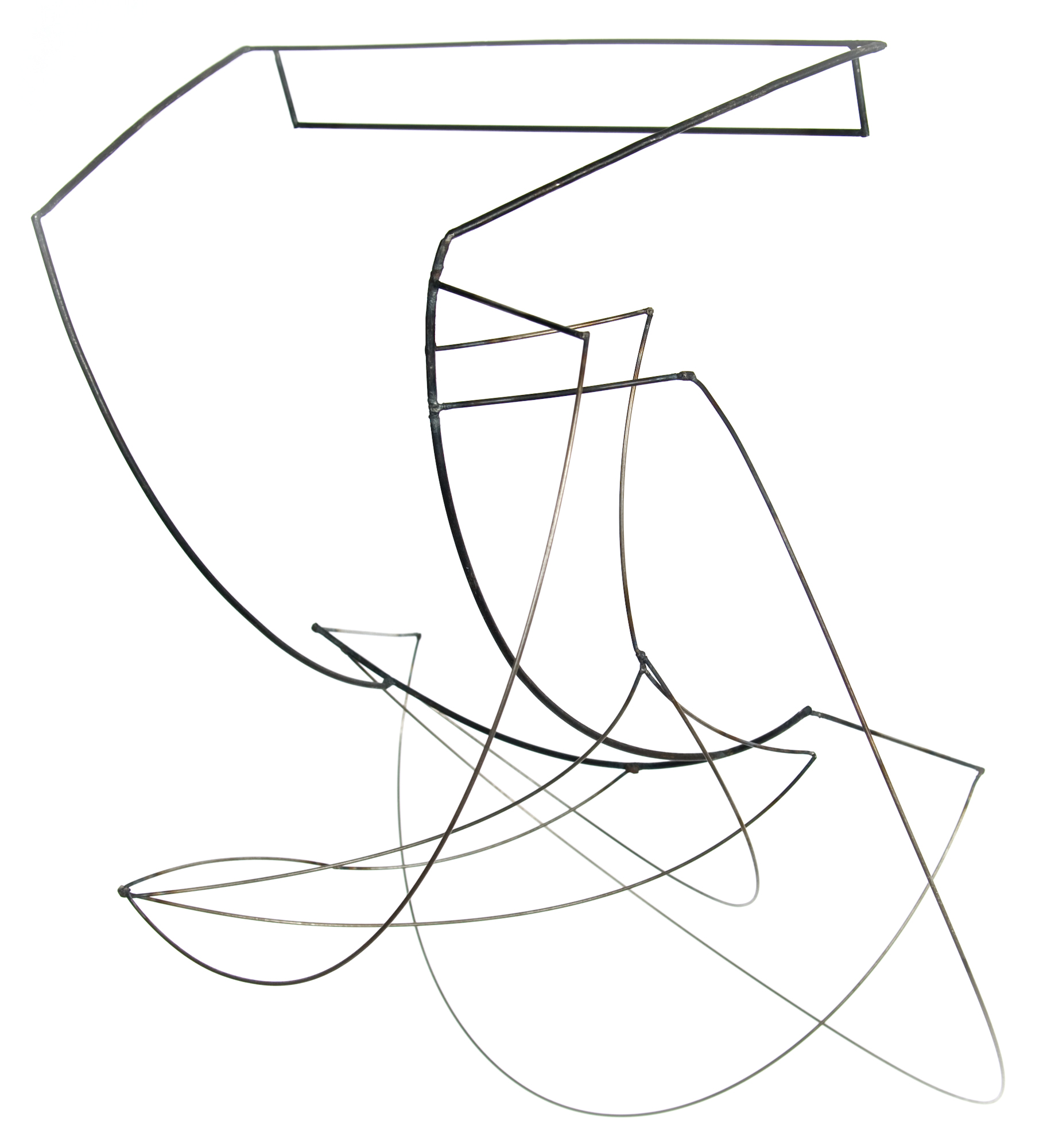 Steel Necklace by Kadi Kübarsepp made 2011.